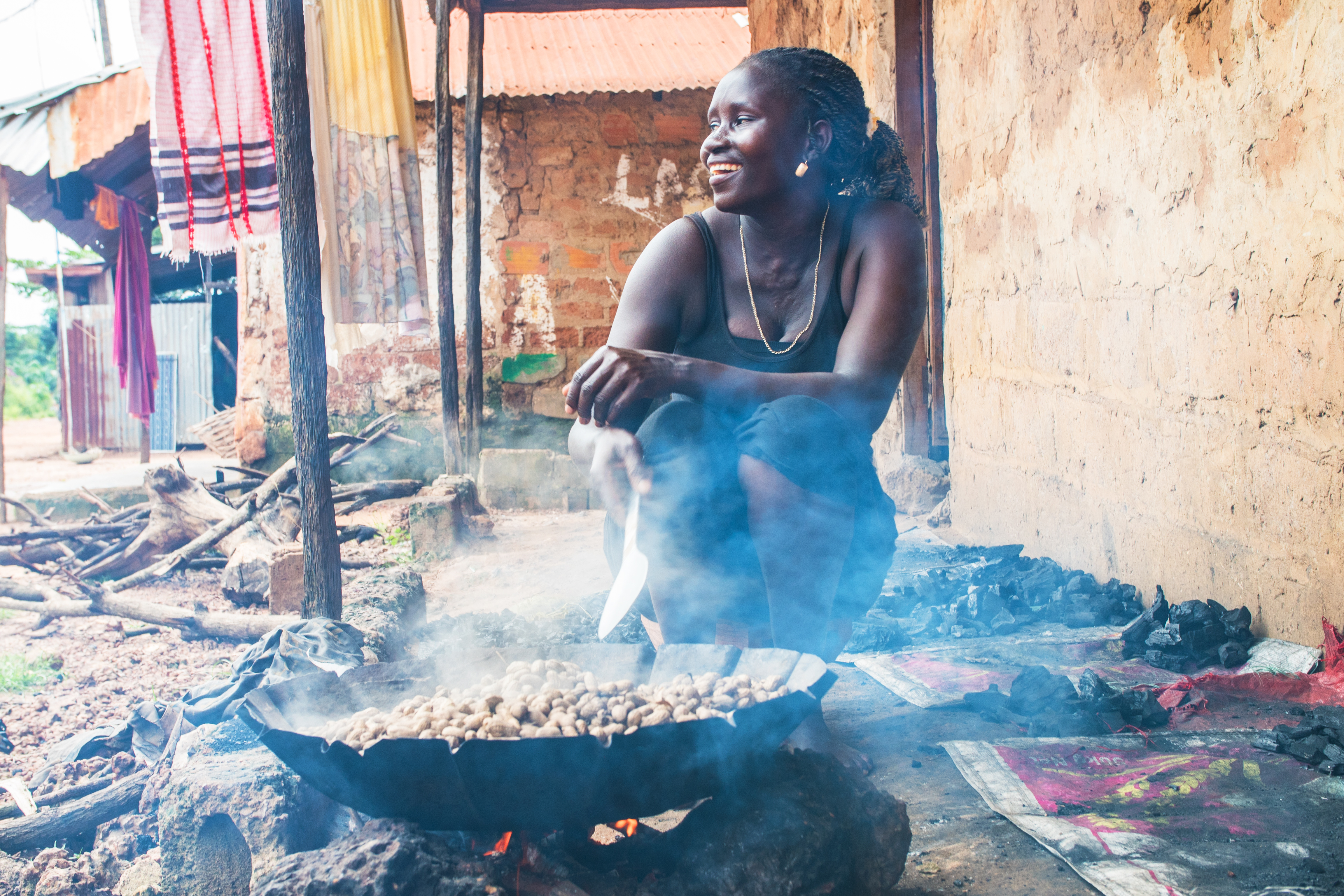 Rita prepares the peanut butter for sale to the market This is an image of "African people at work" from Guinea-Bissau